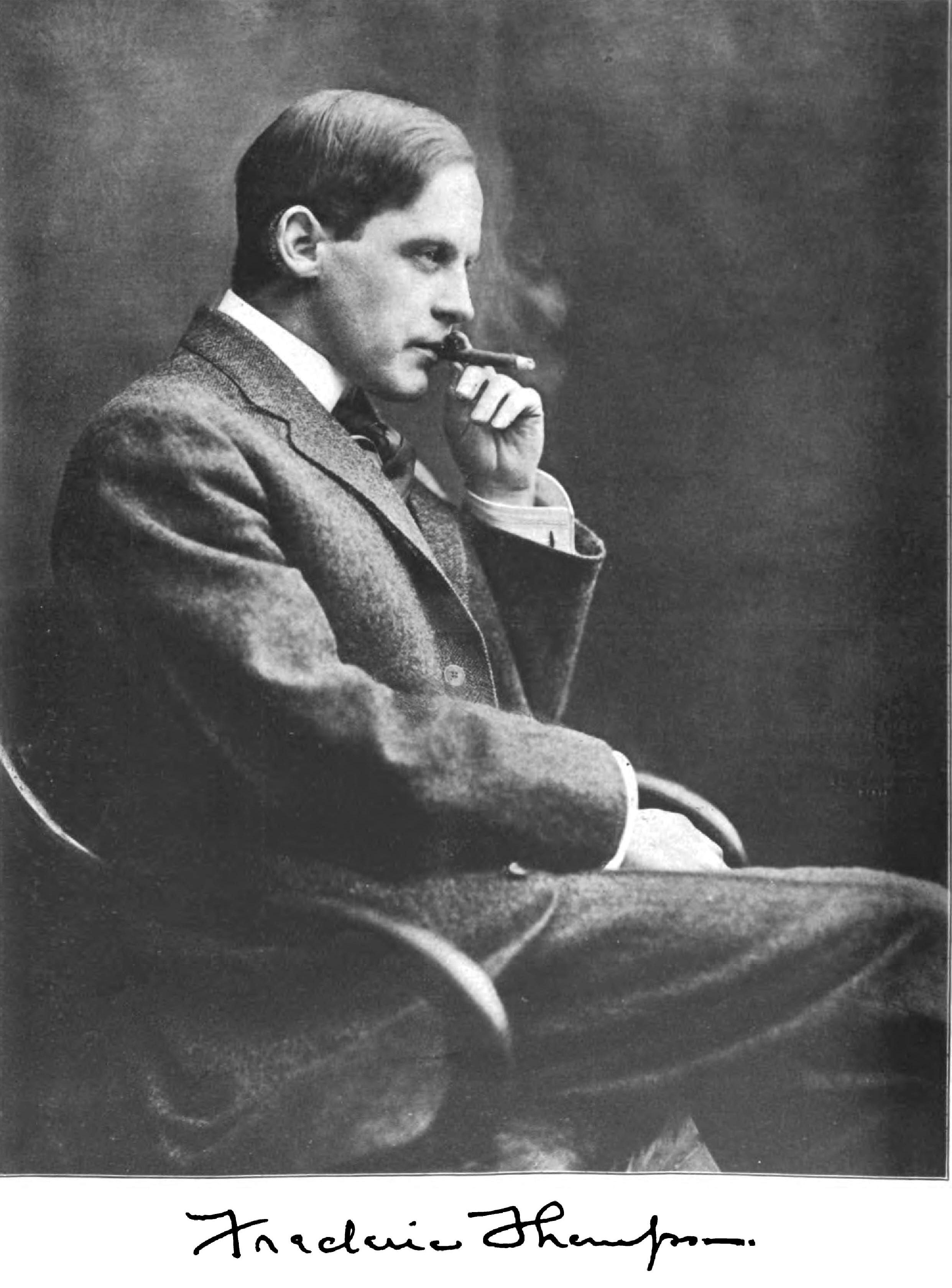 Frederic Thompson was an amusement park designer and manager at the turn of the 20th century with partner Elmer “Skip” Dundy